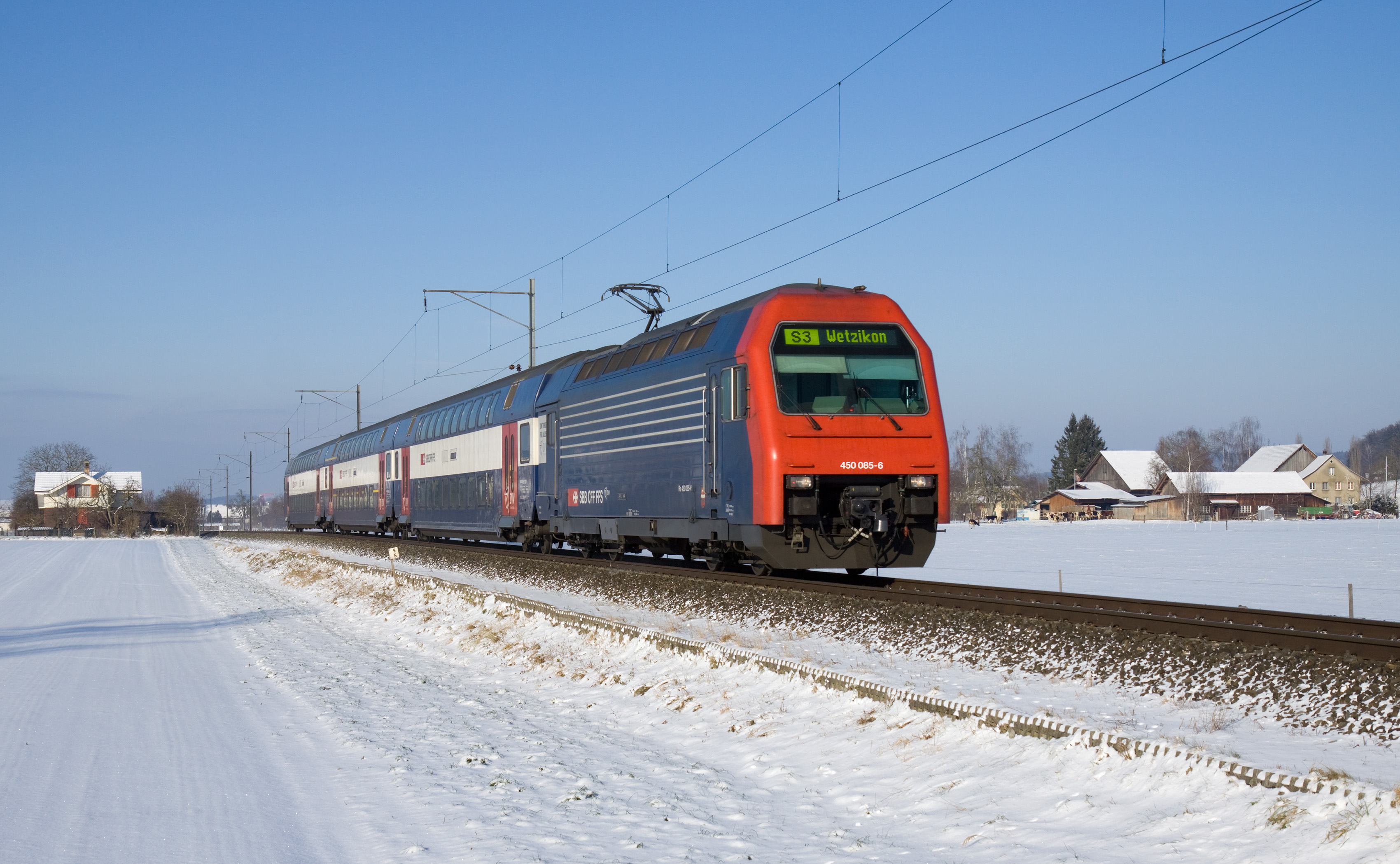 SBB-CFF-FFS Re 450 with a double decker push-pull train on the S3 service of the Zurich S-Bahn, between Fehraltorf and Pfäffikon ZH.